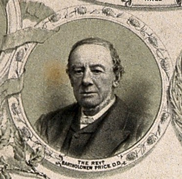 Bartholomew Price portrait